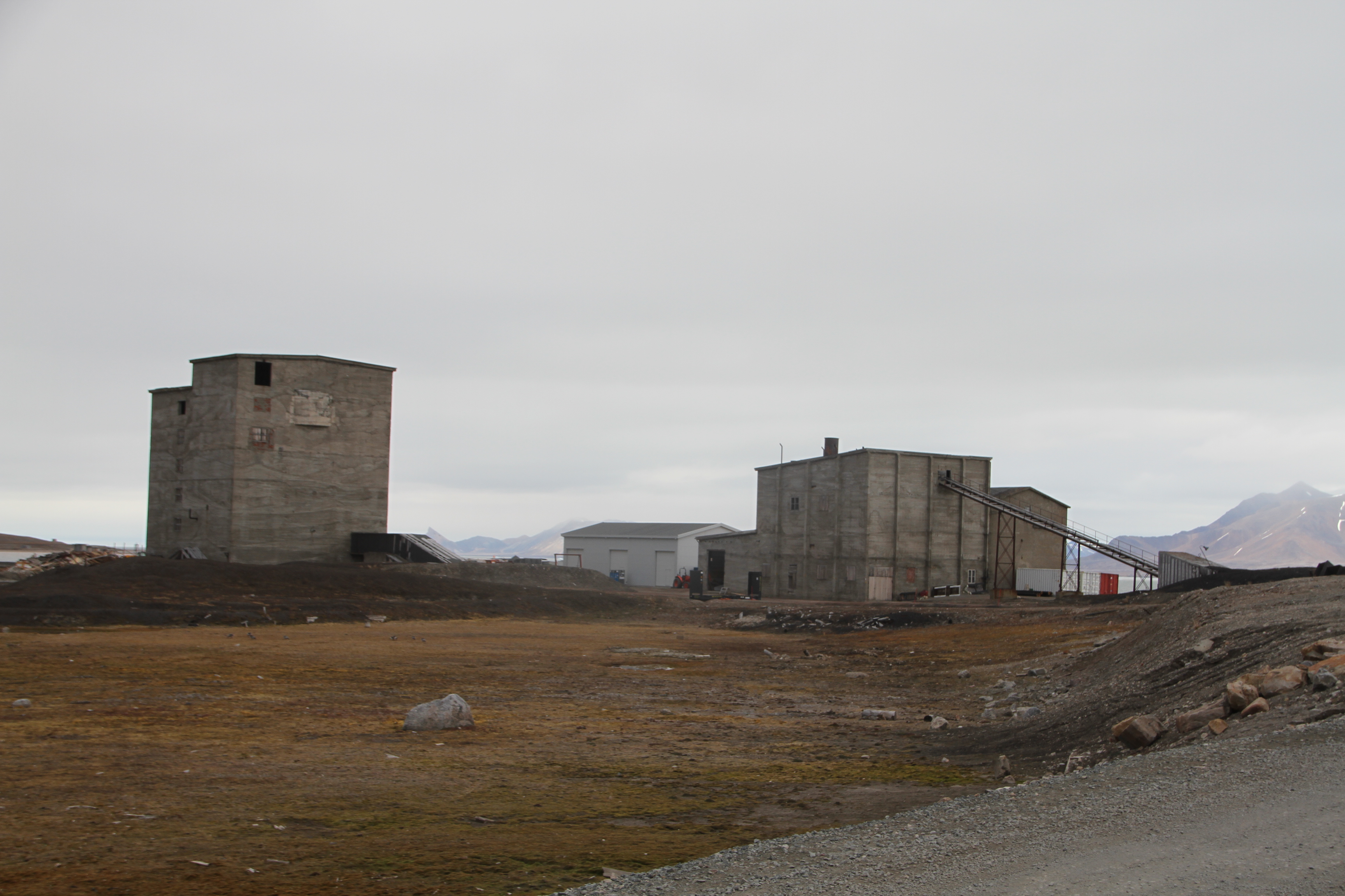 Scene from Ny-Ålesund, the 79* north mining and science community at northwestern Spitsbergen, Svalbard (Norway). Coal mines were abandoned in 1963.